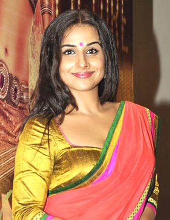 Vidya Balan at The Dirty Picture success media meet